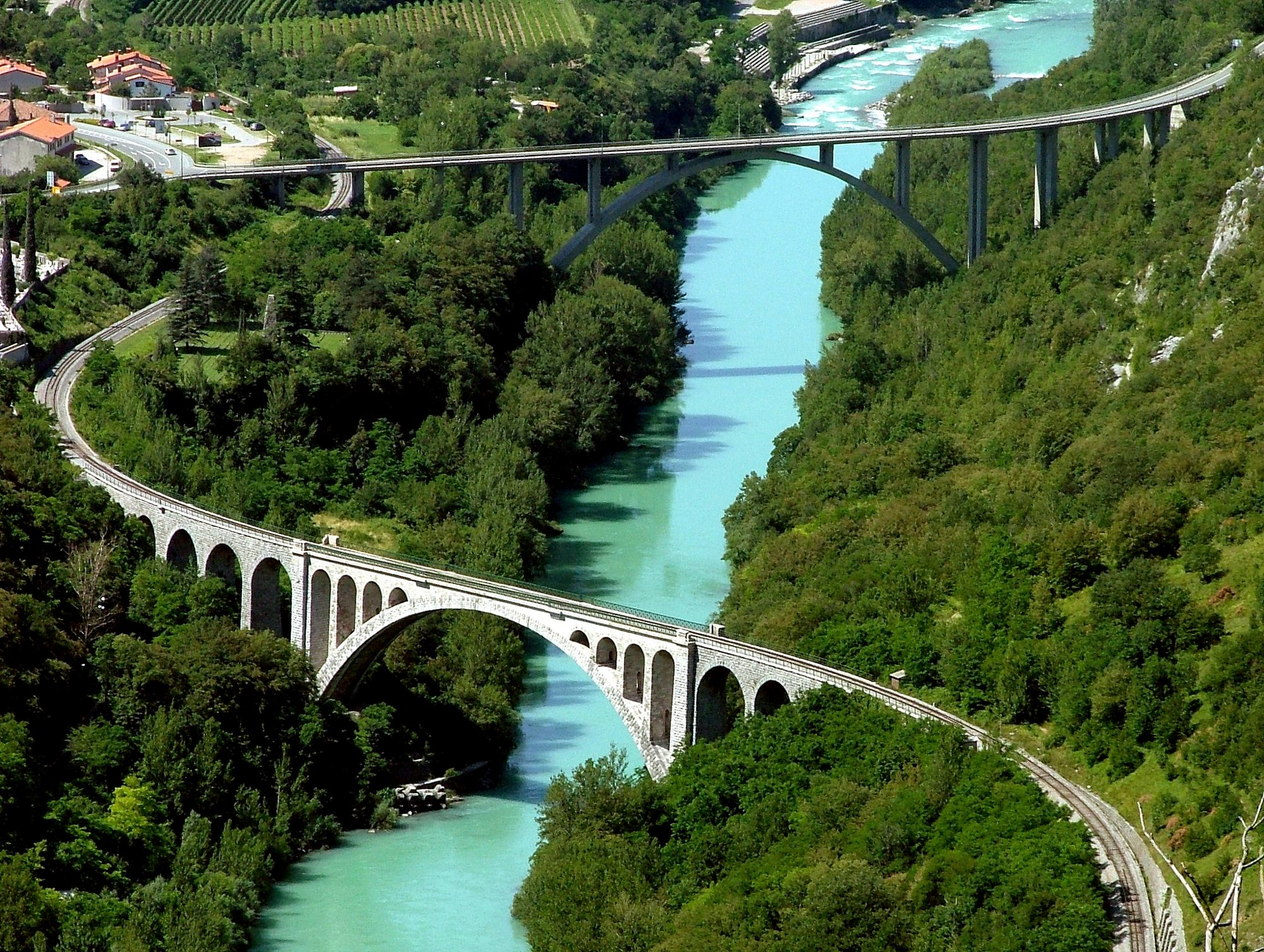 Solkan bridges.